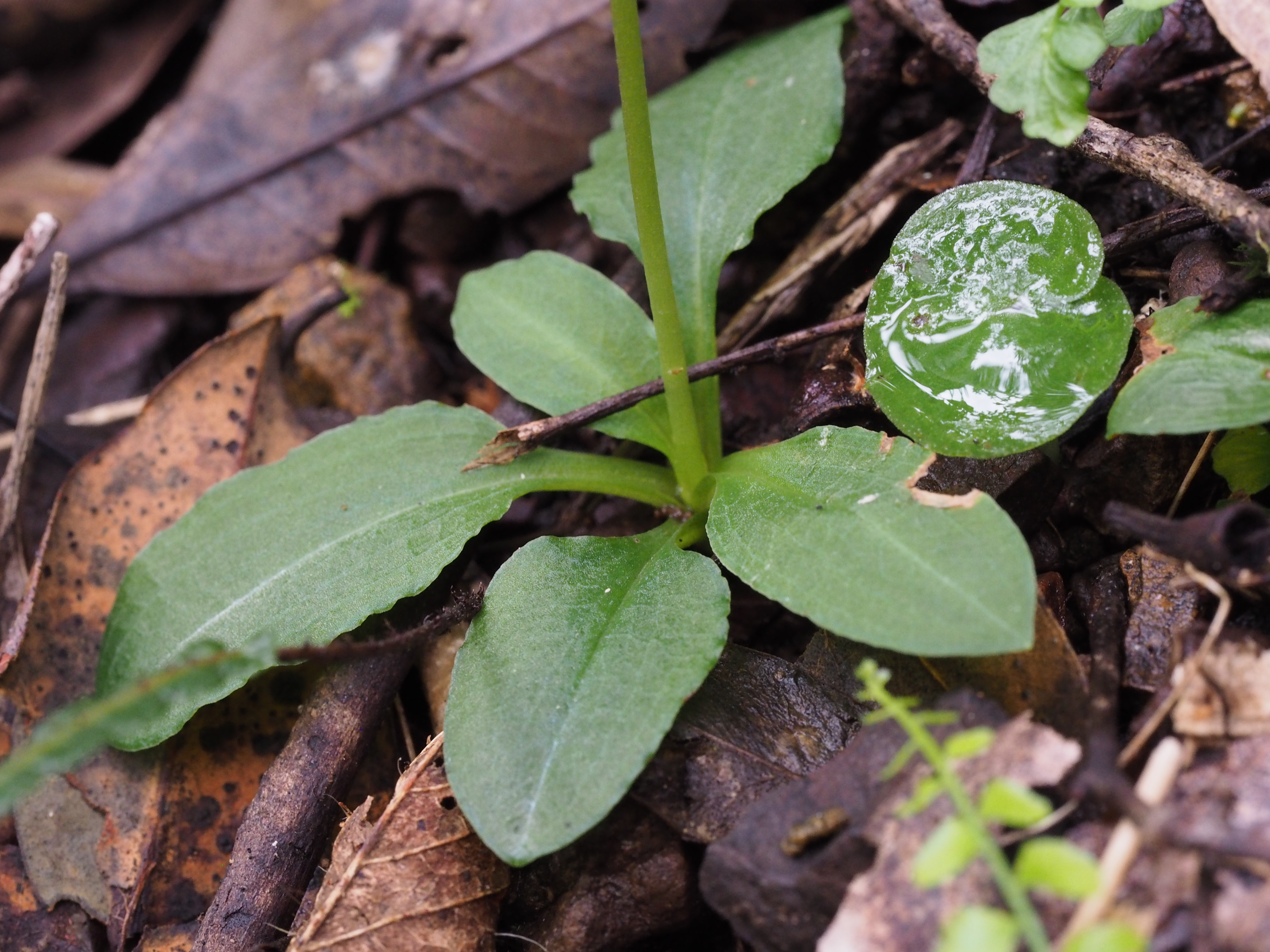 Pterostylis nutans in the Copeland Tops State Conservation Area